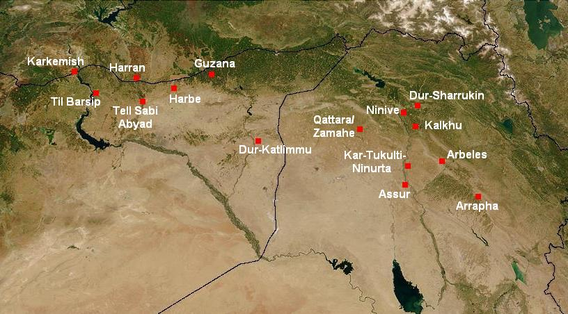 Map of archaeological sites relating to Assyria.